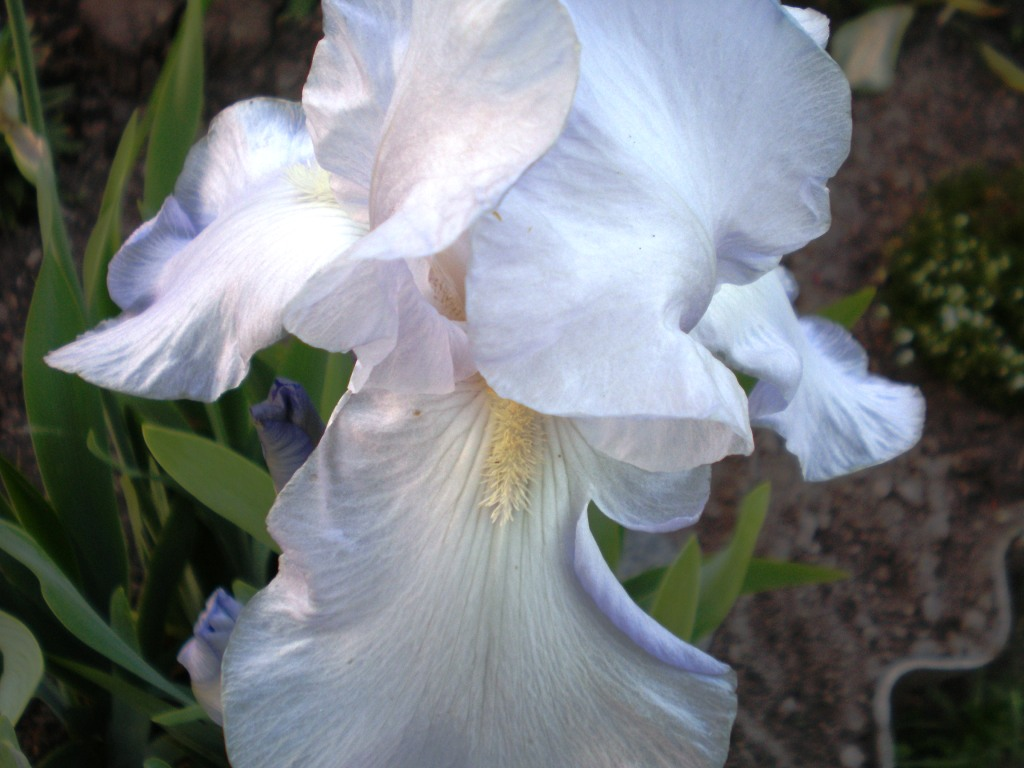 Sweet Iris